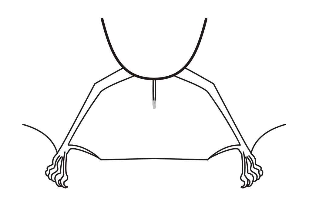 According to Husson, 1962 shows interfemoral membranes, calcar, feet and tail in bats of genus Lonchophylla